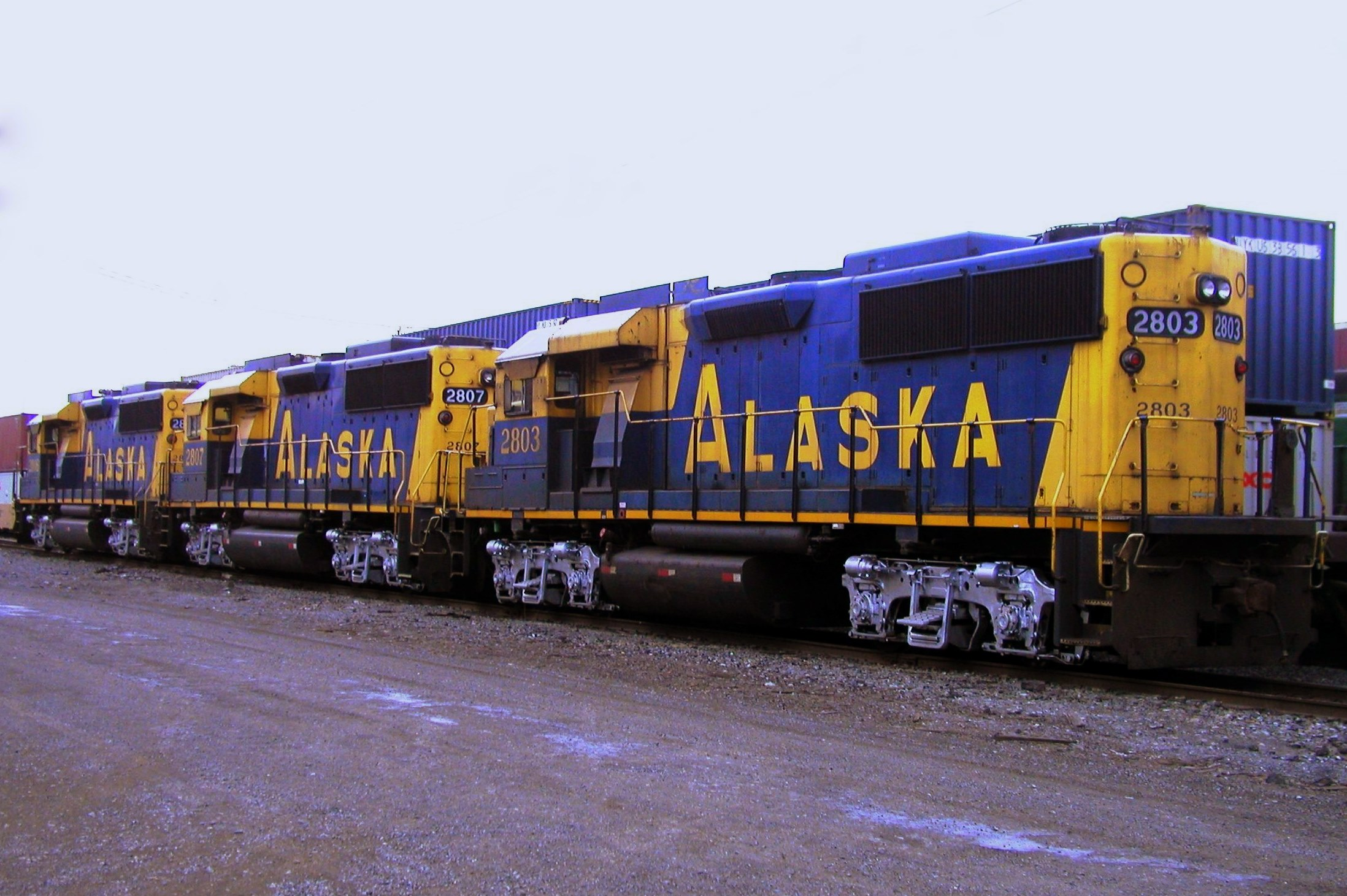 Alaska GP49s at Seattle SODO (CC)